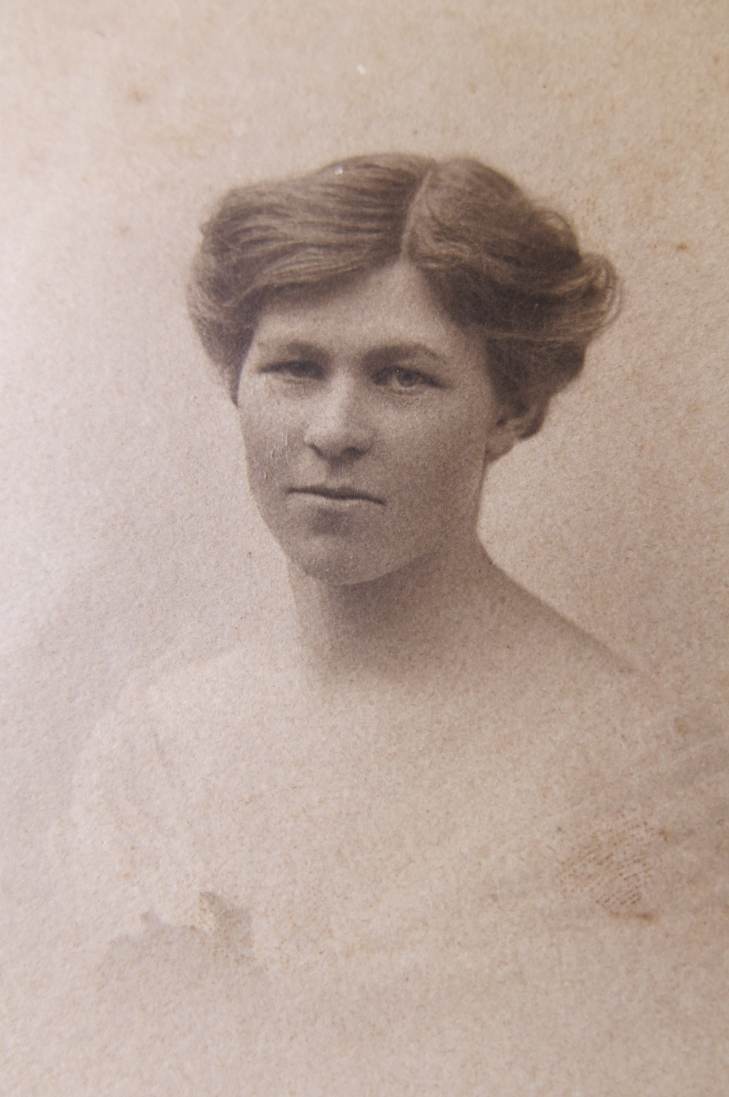 Portrait photo of pastoral and landscape artist Maude Haydon of Bloomfield in 1910